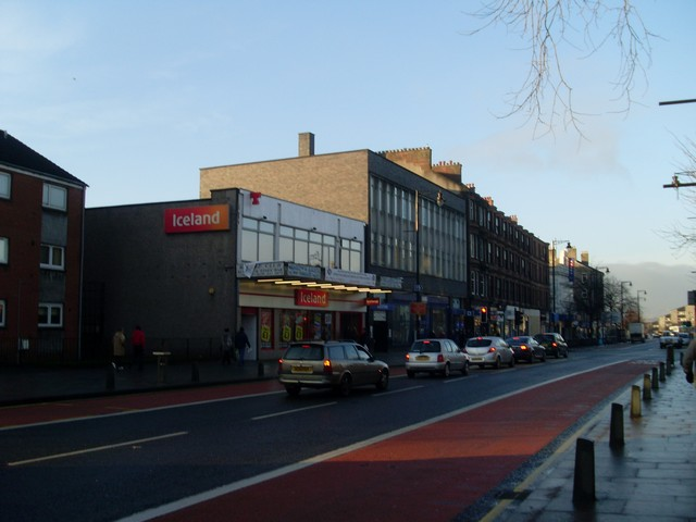 Main Street, Rutherglen Westbound view on the town's central street.